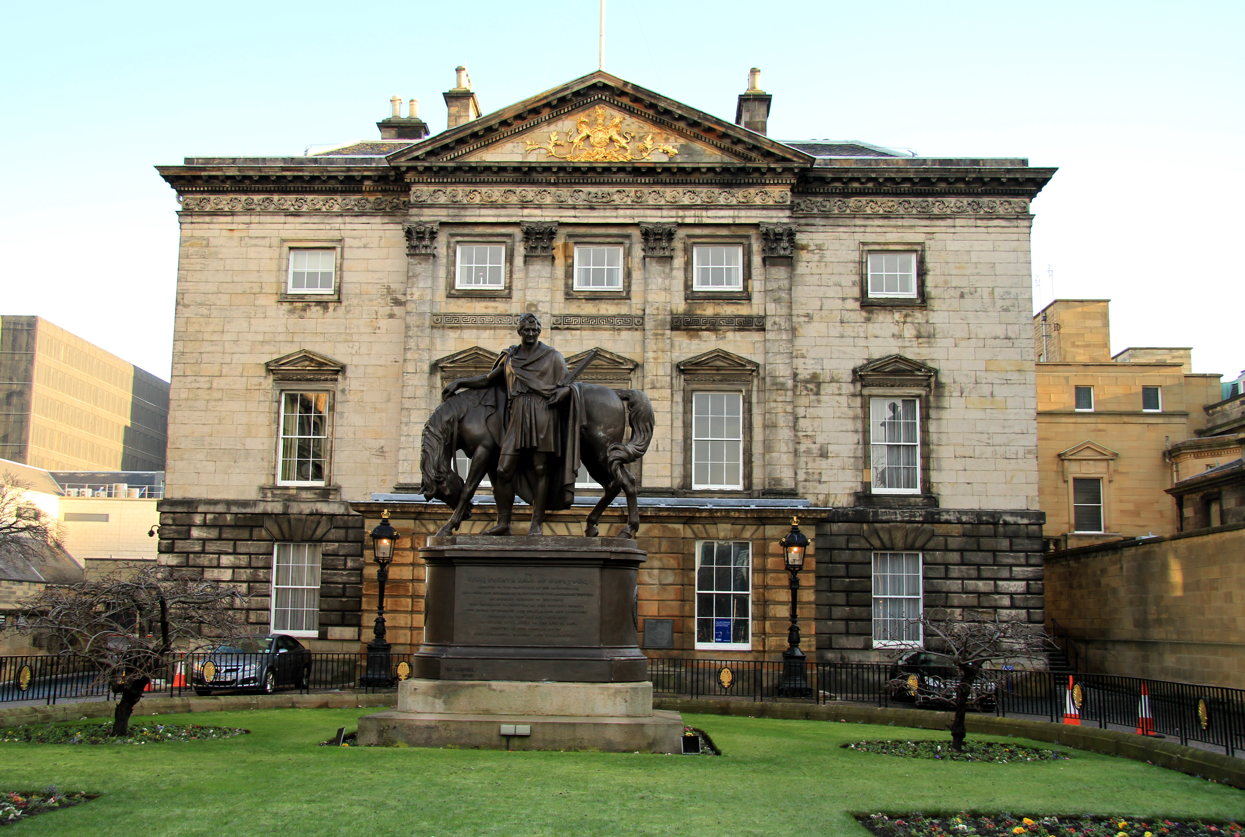 Royal Bank of Scotland HQ